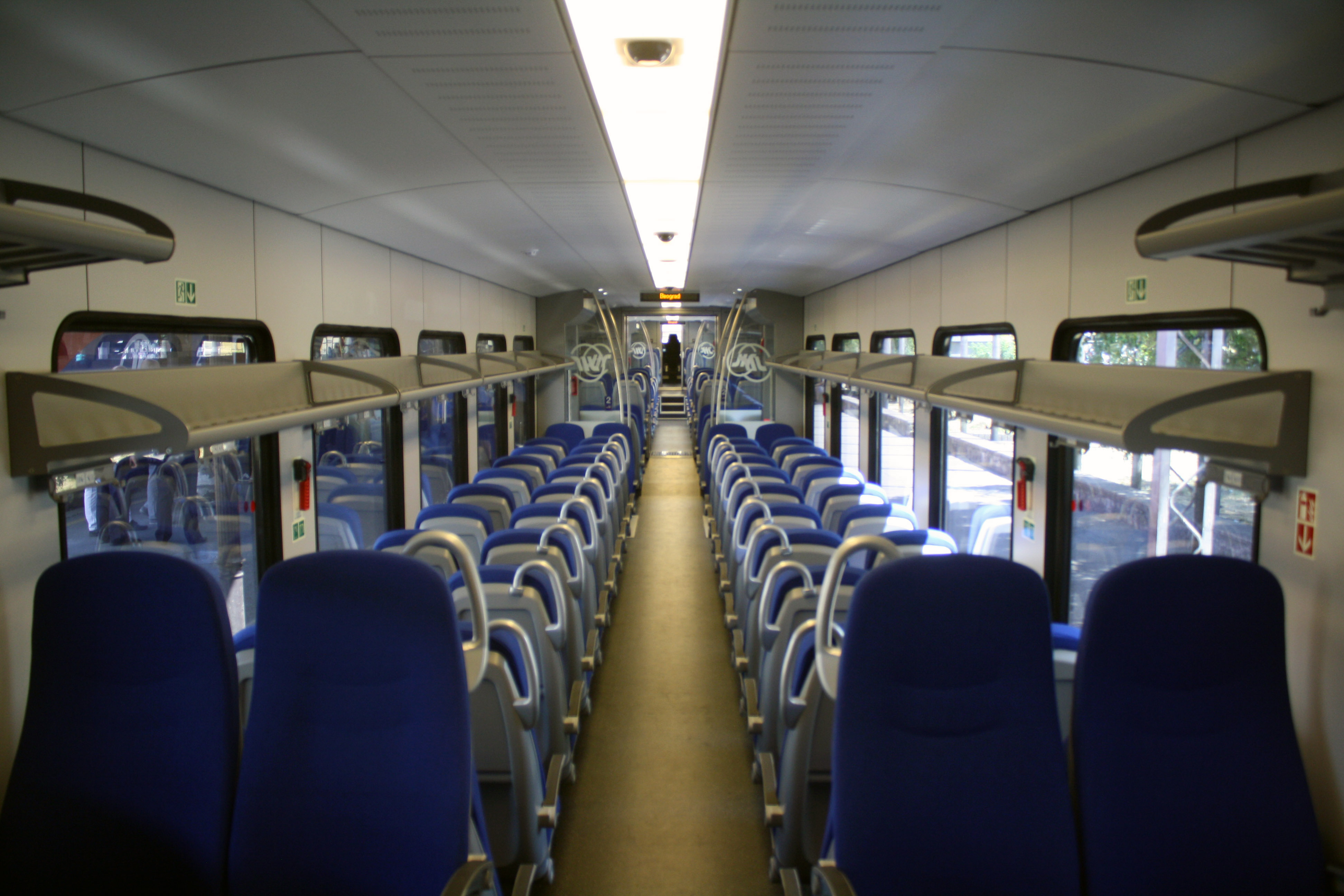 Serbian Railways FLIRT interior.